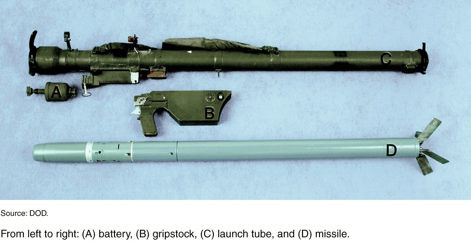 9K32M "Strela-2M" / SA-7b Grail